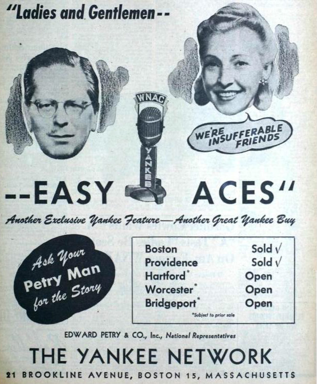 Ad for the syndicated radio show Easy Aces from Billboard. The show in its syndicated version was purchased by the Yankee Radio Network-one of those buying rights to air the program after it left CBS radio in 1945.